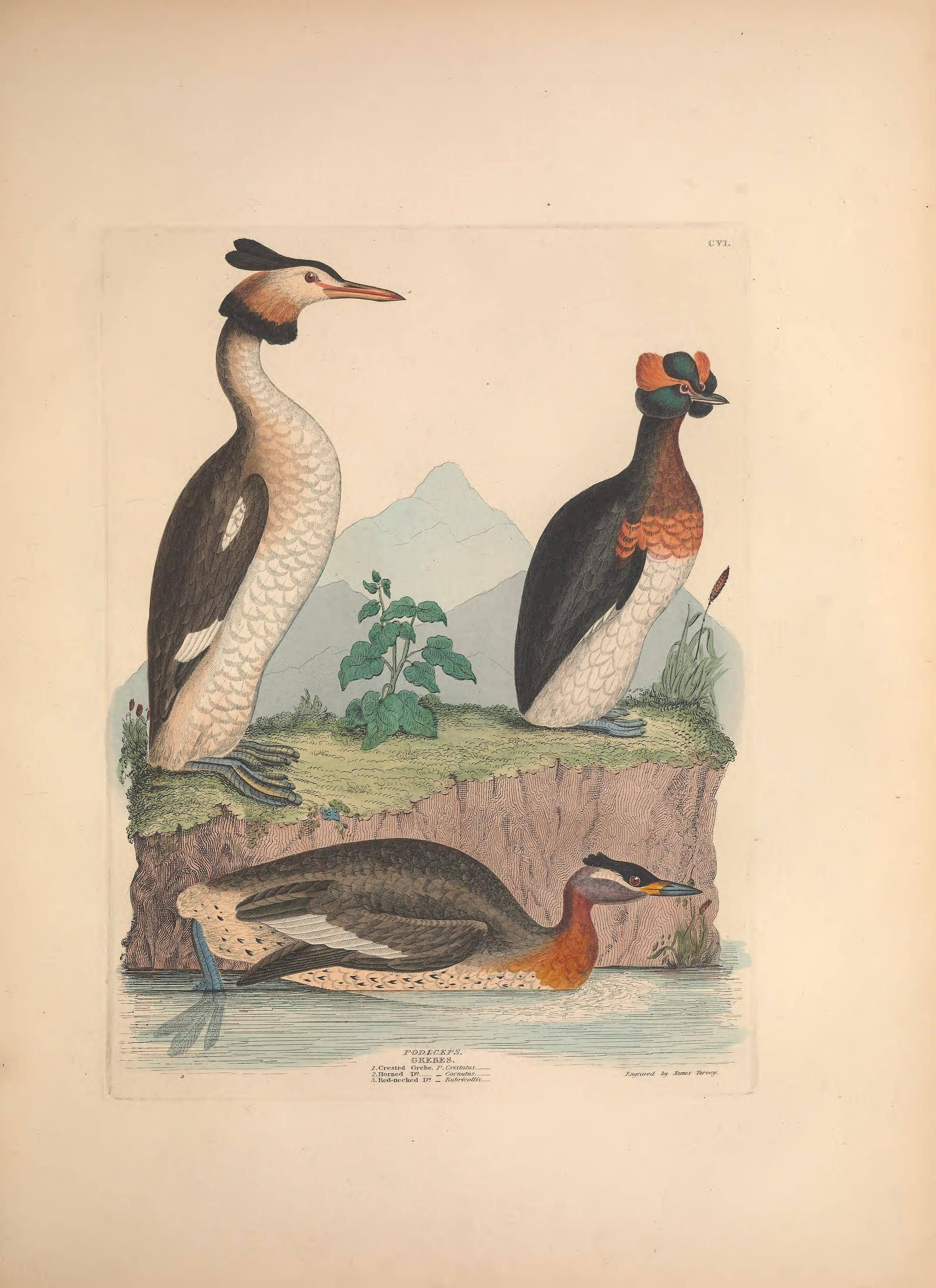 2. Crested Grehe. P. CrtrtafJis. '.Horned D? - Cornuaes Pnt/rai'nd l»/ James Pirney. 3. Red-necked D? — Ru/.ricof/.i.r. —